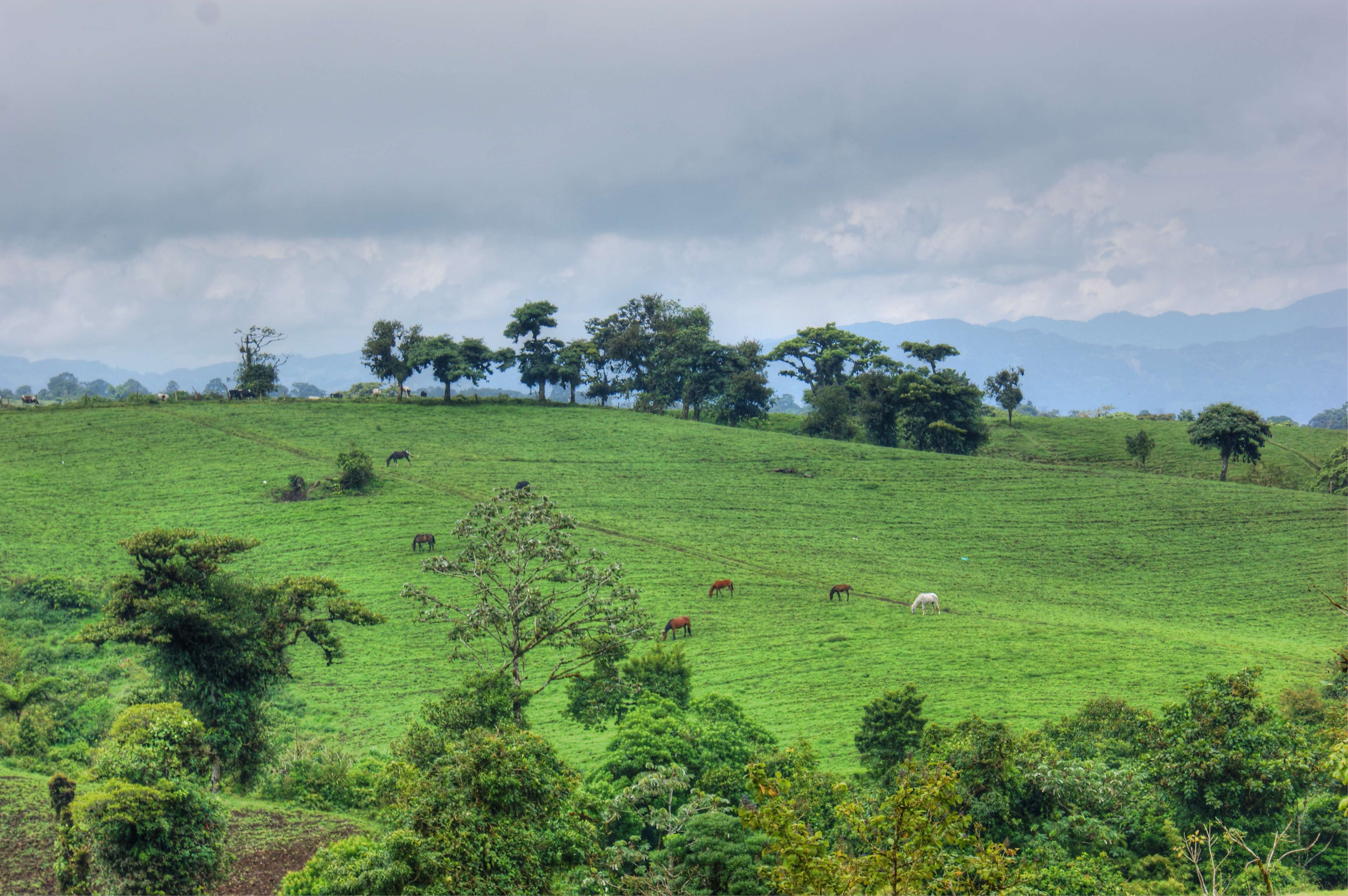 Paracito, Moravia landscape